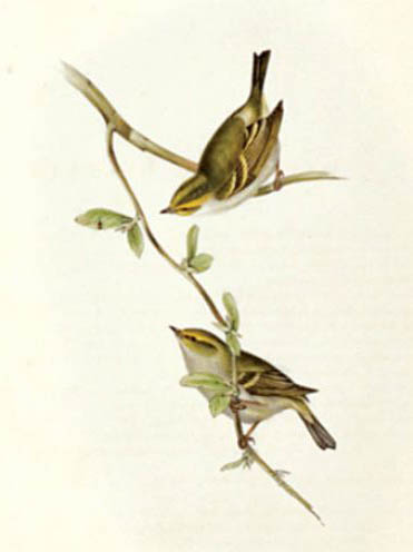 Phylloscopus proregulus cropped from Gould's llustration of "Dalmatian Regulus"